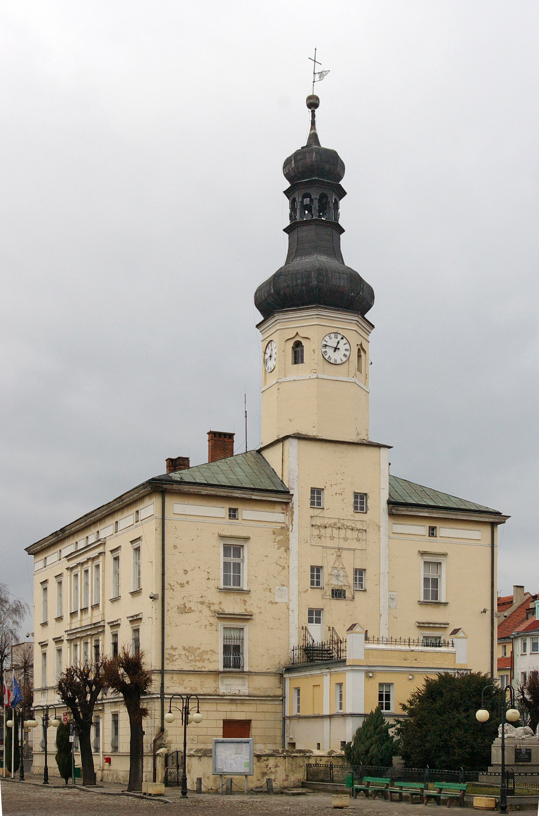 Town hall in Wiązów, Lower Silesia, Poland